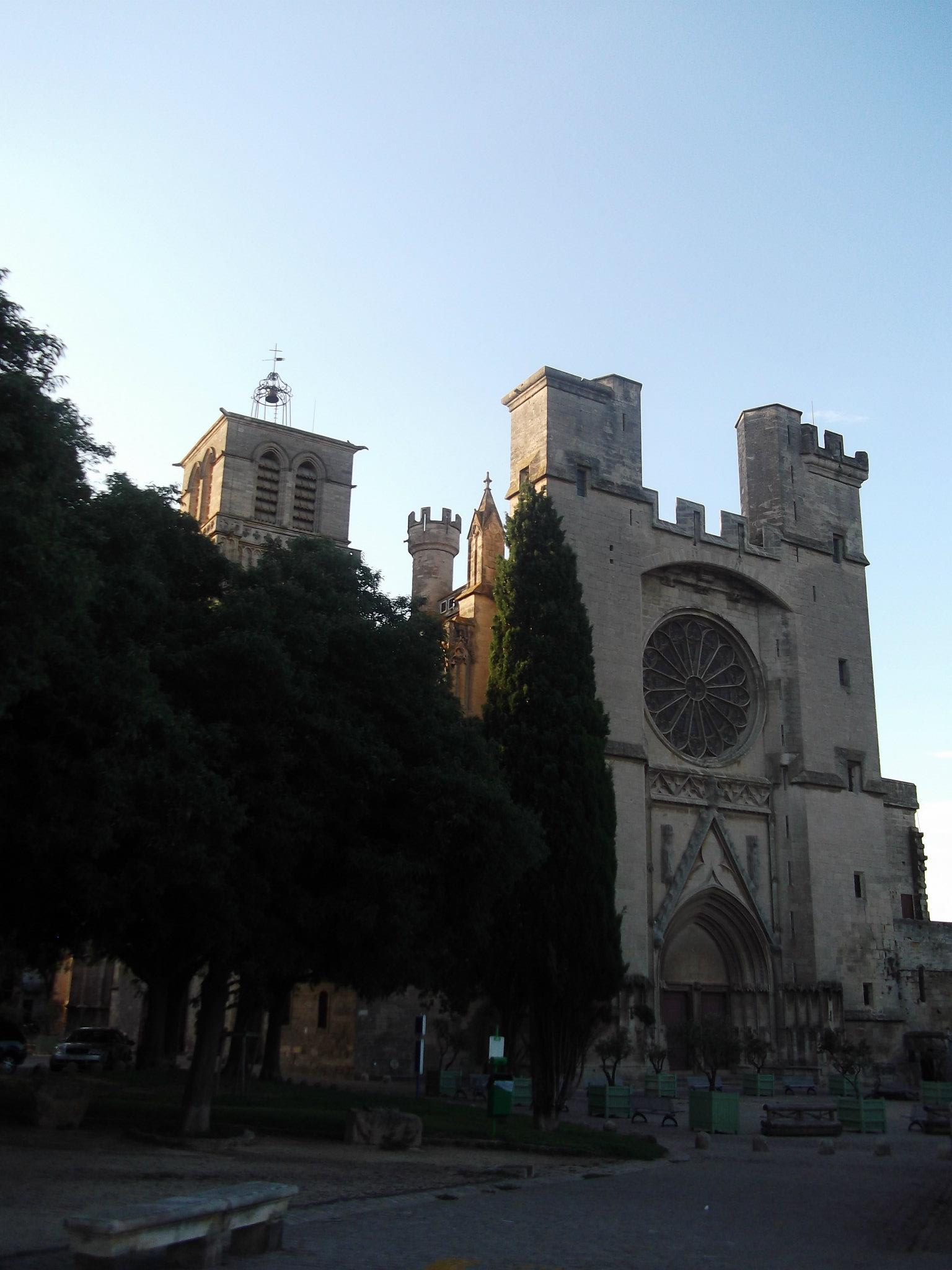 This is the square of the Cathedral Saint-Nazaire of Beziers, it is a Gothic Southern style church, built in the thirteenth century